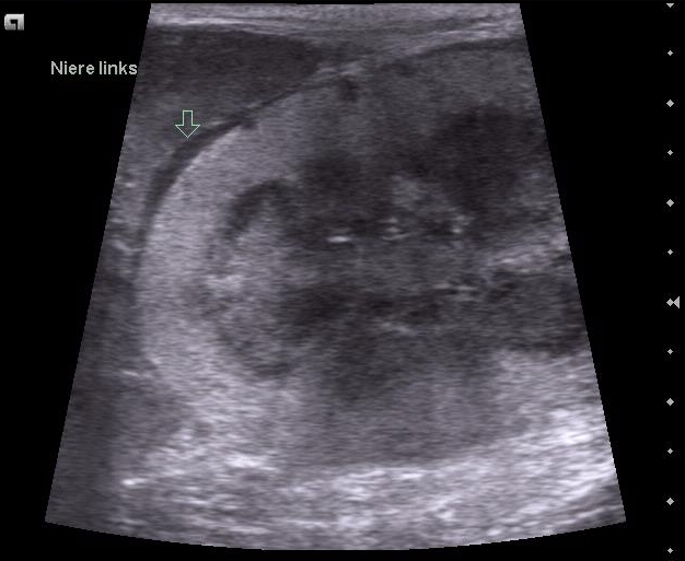 malign lymphoma in the kidney of a cat, domestic shorthair. Note the hypoechoic area (arrow)